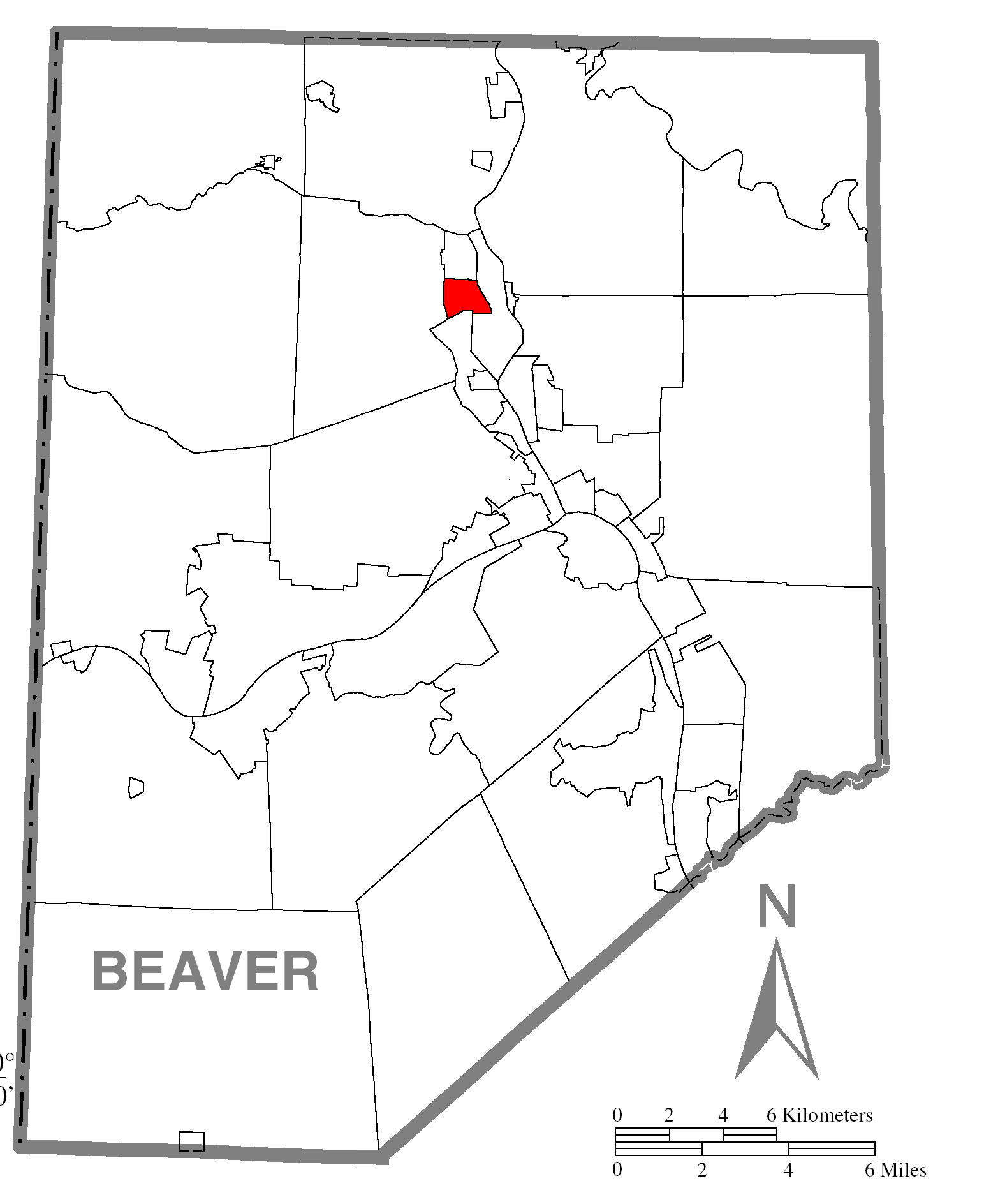 A map of Beaver County showing White Township, Pennsylvania (alternate) highlighted on the map.